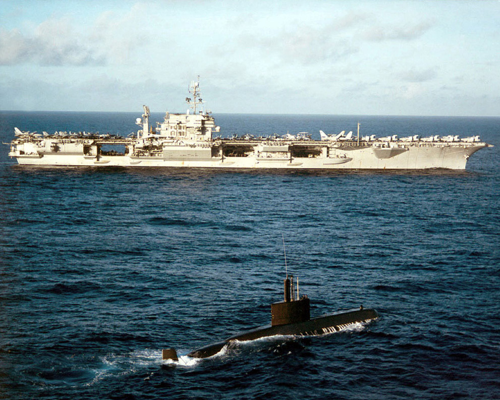 961000-N-0000M-002A Korea, South Republic CHANG BOGO (Type 209) CLASS (1200) CHOI MUSON, submarine sails near the U.S. Navy's aircraft carrier USS Kitty Hawk (CV 63) during multinational operations in the western Pacific.Photographer's Name: P03 ROBERT MORALESLocation: USS KITTY HAWK (CV 63)Date Shot: 10/1/1996Date Posted: unknownVIRIN: 961000-N-0000M-002